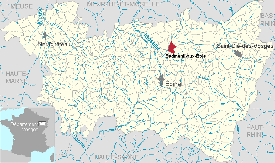 Badménil-aux-Bois in the department of Vosges, Lorraine, France